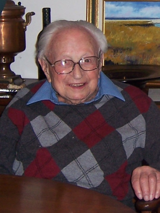 László Tisza, Professor of Physics Emeritus at Massachusetts Institute of Technology. Initiated the two-fluid theory of liquid helium.